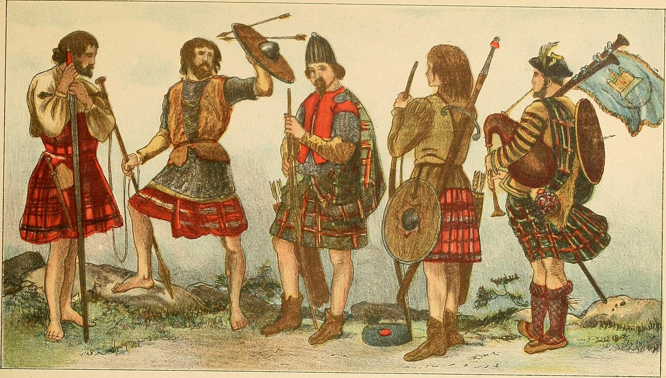 Title: Geschichte des Kostüms Year: 1905 (1900s) Authors: Rosenberg, Adolf, 1850-1906 Heyck, Eduard, 1862-1941 Subjects: Costume Publisher: New York, Weyhe Text Appearing Before Image: e. Durch die Vereinigung Schottlands mit England (Personalunion i6o3, staatlicheUnion 1707) ist das Eindringen europäischer Bestandteile in das Hochländerkostümsehr gefördert worden, und ebenso der Sieg der europäisch allgemeinen Tracht, nach-dem sie zuvor nur geringe Fortschritte hatte machen können. Fig. I. Spätmittelalterlicher Mann des Clan Dugal. Fig. 2. Spätmittelalterlicher Mann des Clan June, in Schutzrüstung, Ringelpanzer. Fig. 3. Mann des Clan Laurin, i5. Jahrhundert. Fig. 4. Soldat des Clan Quaries, um 1600. Fig. 5. Dudelsackpfeifer des Clan Cruimin, 17. Jahrhundert. Bis an die Neu-zeit haben die Bergschotten noch die mittelalterlichen Waffen neben den neueren,der Überlieferung zuliebe, beibehalten. Fig. 6. Vornehmer des Clan Robertson, um 1670. Fig. 7. Vornehmer des Clan Intoshes, älteres 18. Jahrhundert. Fig. 8. Vornehmer des Clan Ogilois, Mitte des 18. Jahrhunderts. Fig. 9. Regimentstracht mit den Farbenmustern des Clan Kennedy, Ende des18. Jahrhunderts. \ 214 Text Appearing After Image: '